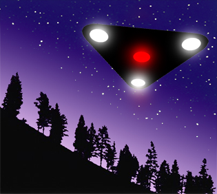 Image made by Wikipedia user SkeezerPumba